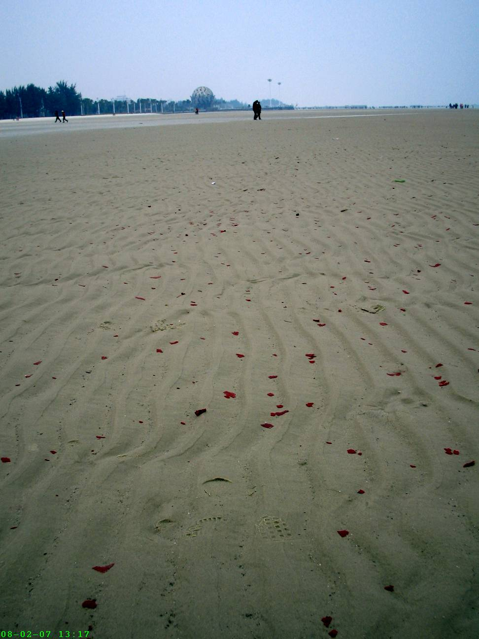 China Guang Xi proven, Bei Hai Beach. 北海银滩